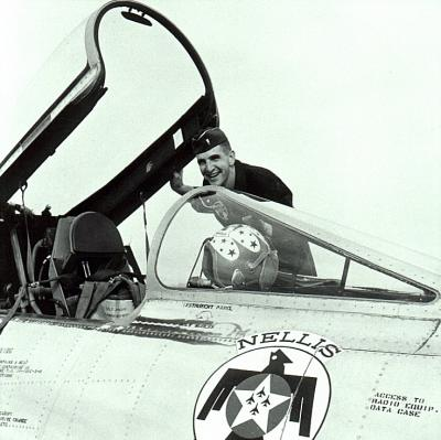 Sam Johnson as first lieutenant, 1957, solo pilot for Thunderbirds. (U.S. Air Force photo)